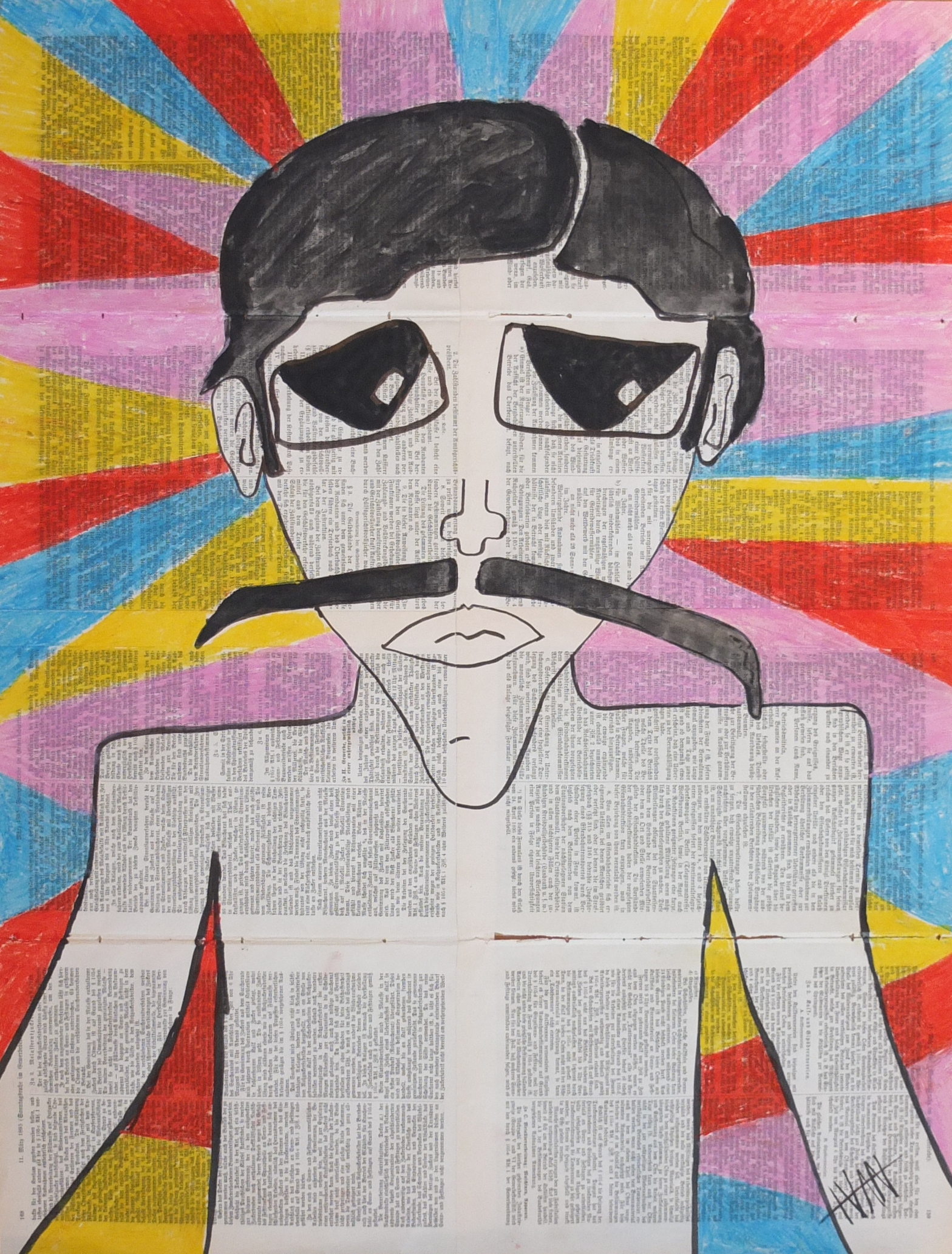 Beautiful abstract painting from german outsider artist "Ivan Summersky". Painting I've submitted on the Papergirl-Trier project 2014. Mixed media on sticked 100 years old book-pages. A few years ago, I purchased on a flea market, next to the artists' district "Montmartre" in Paris, a book which is more than 100 years old. This book contained German and Prussian legislationd of 1895. I teared out all pages, smoothed them with an iron and sticked them together to new larger pages.